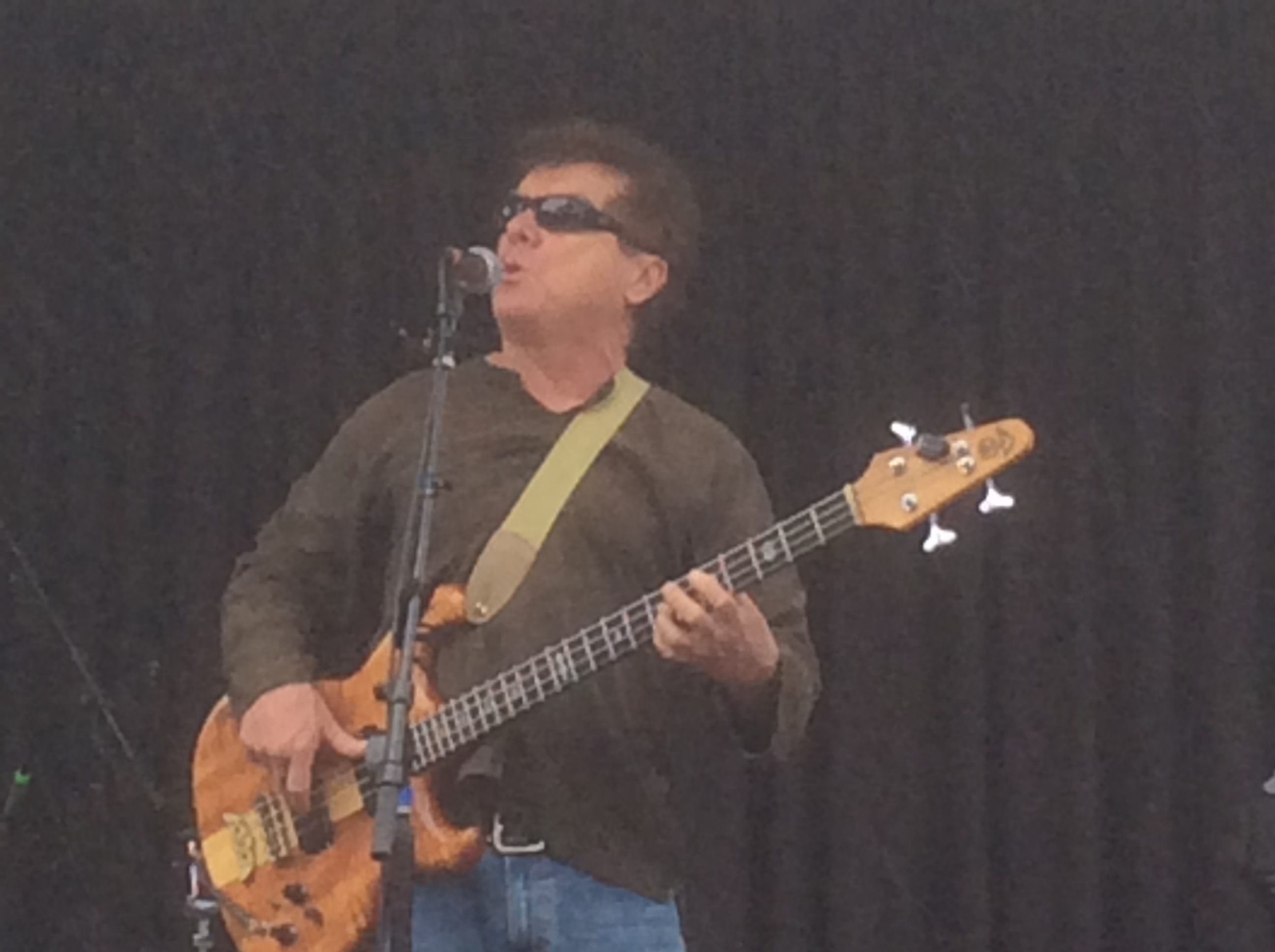 Joe Puerta onstage with the progressive rock group Ambrosia on April 25, 2015 in Manhattan Beach, California, in celebration of Earth Day